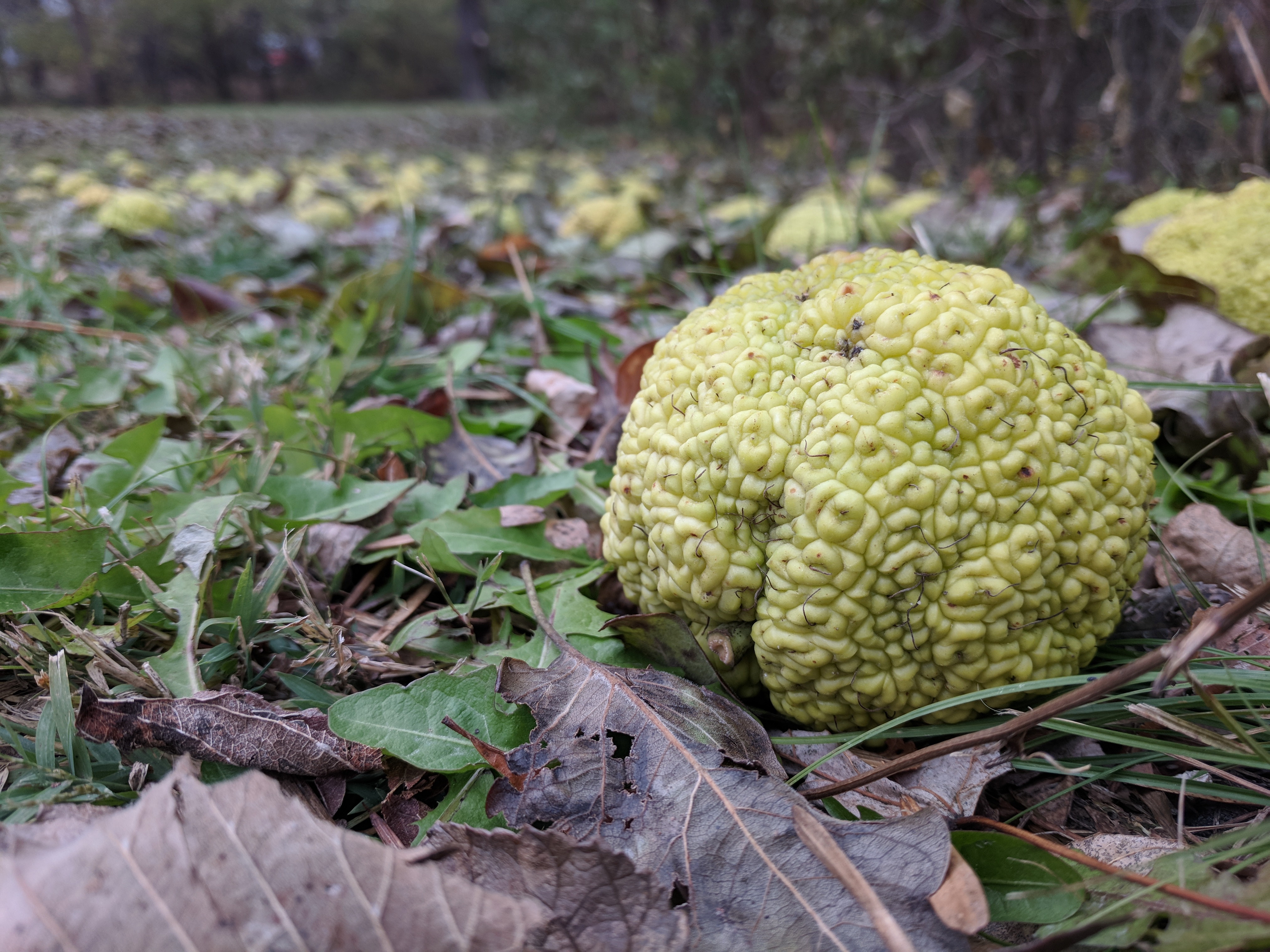 Osage Orange (Maclura pomifera) Left Rotting on the Ground in Iowa